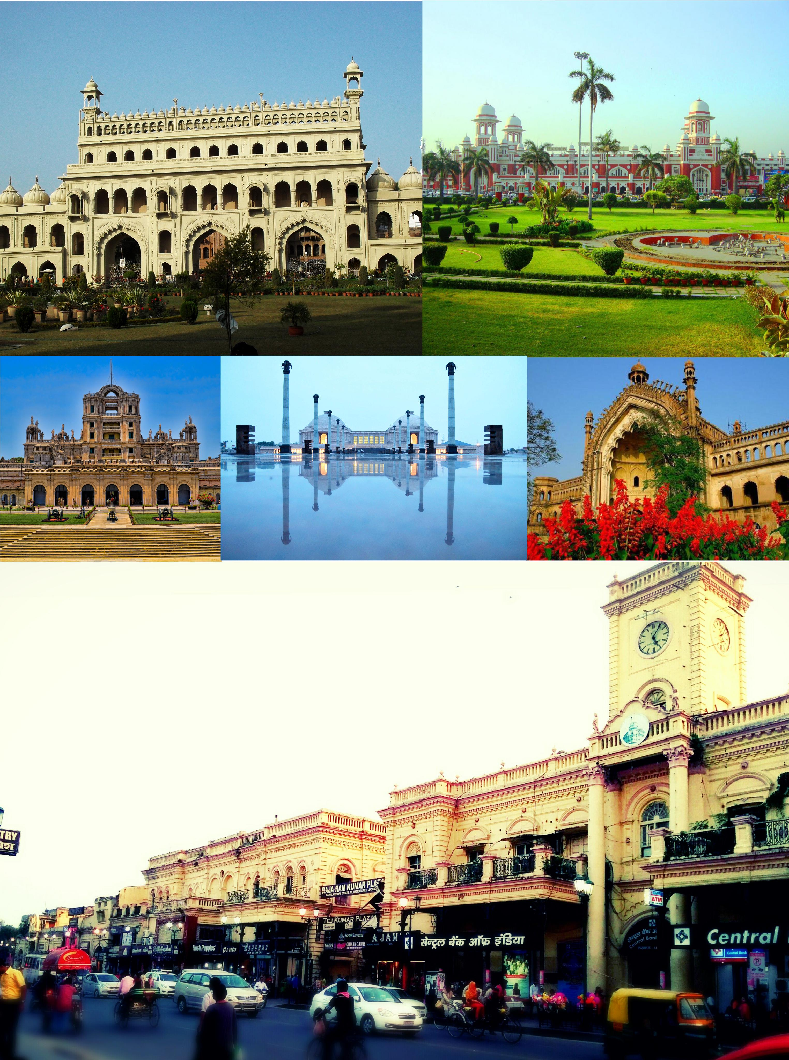 This is a collage of various places in Lucknow created by images taken from Wikimedia Commons.